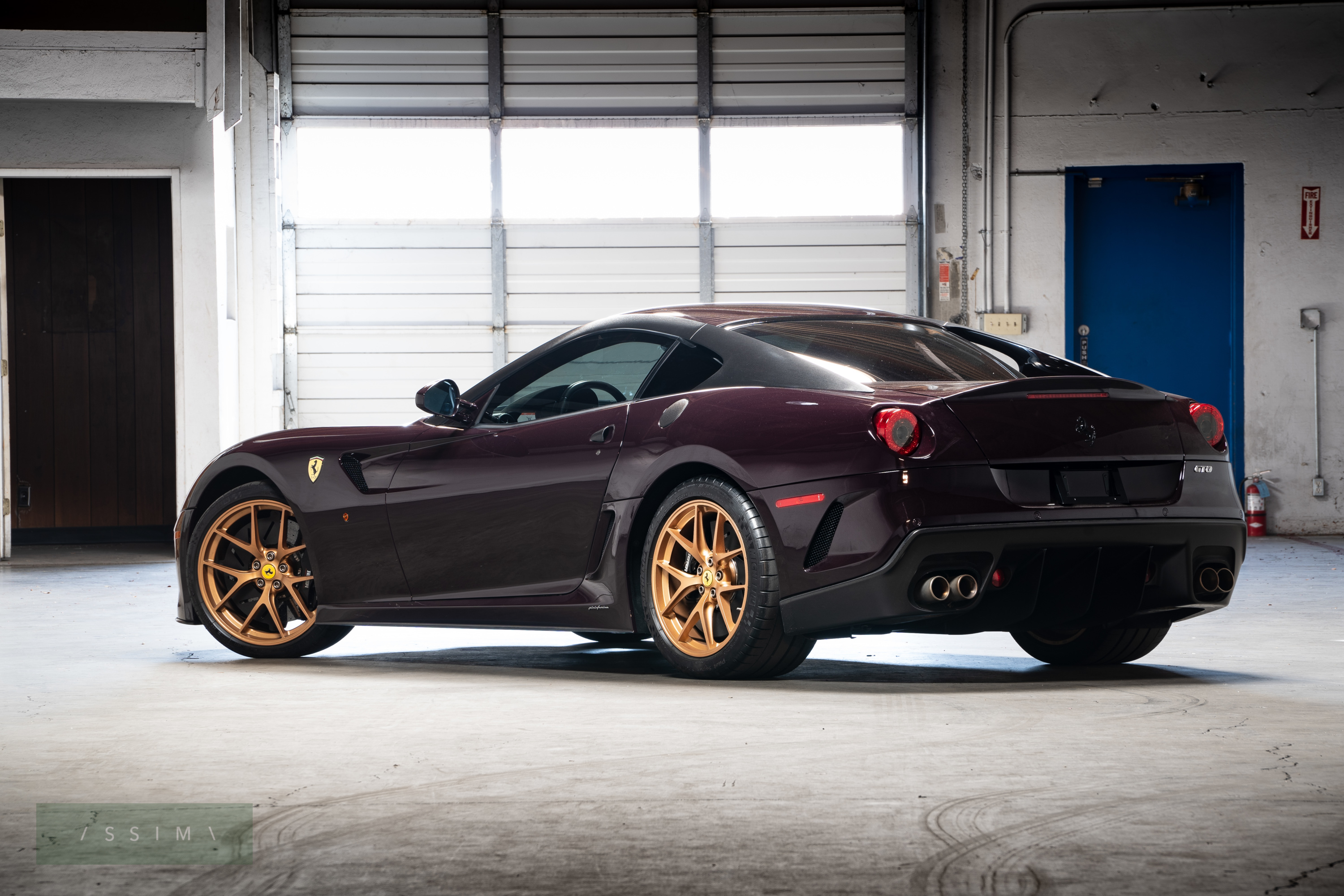 The unique Vinaccia color of this special Ferrari 599 GTO